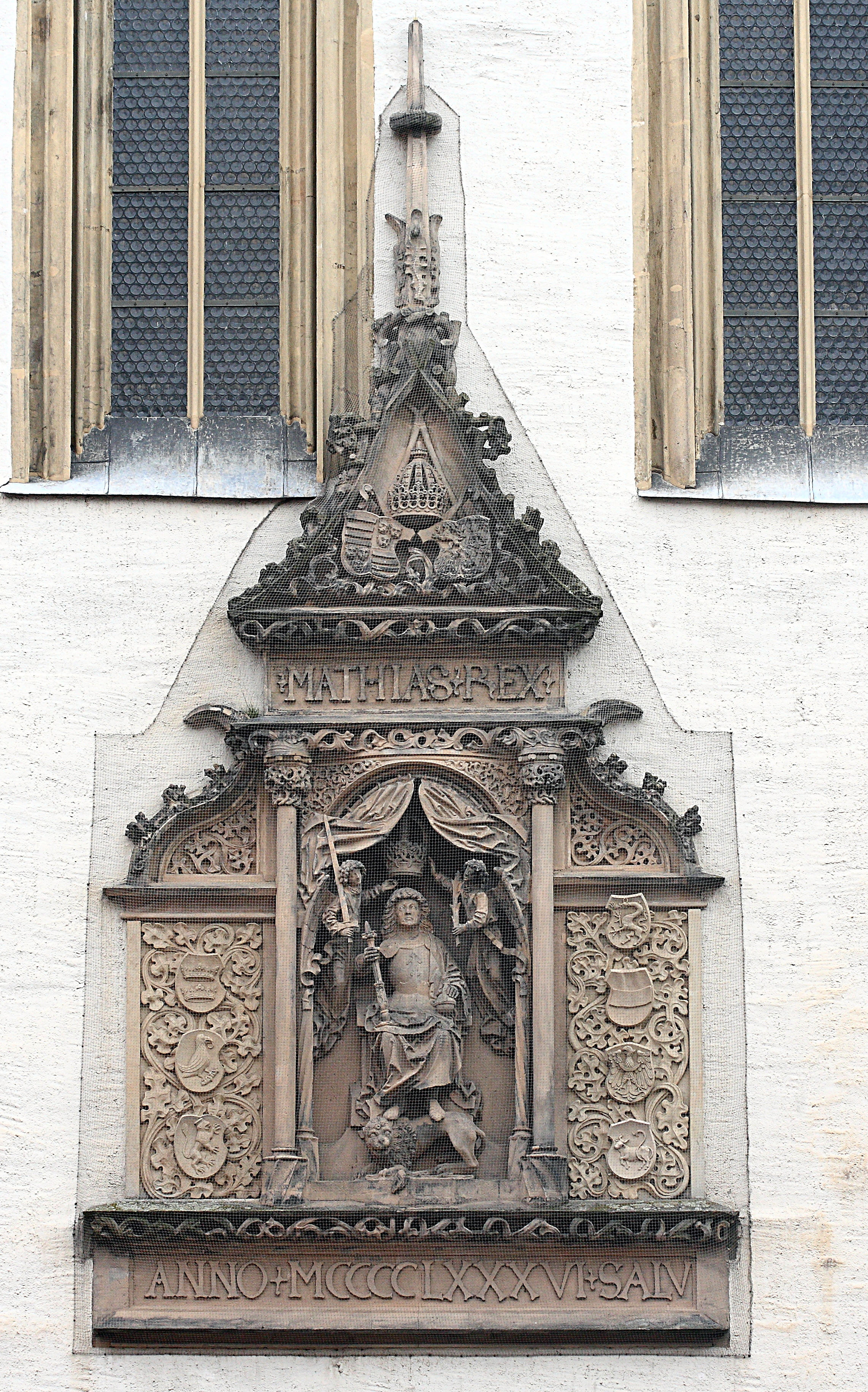 The Matthias Corvinus memorial in Bautzen, Ortenburg, Germany